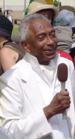 Anton Wicky, he is a tarento and educator in Japan. This photograph was taken at the Expo 2005 on August 2, 2005.